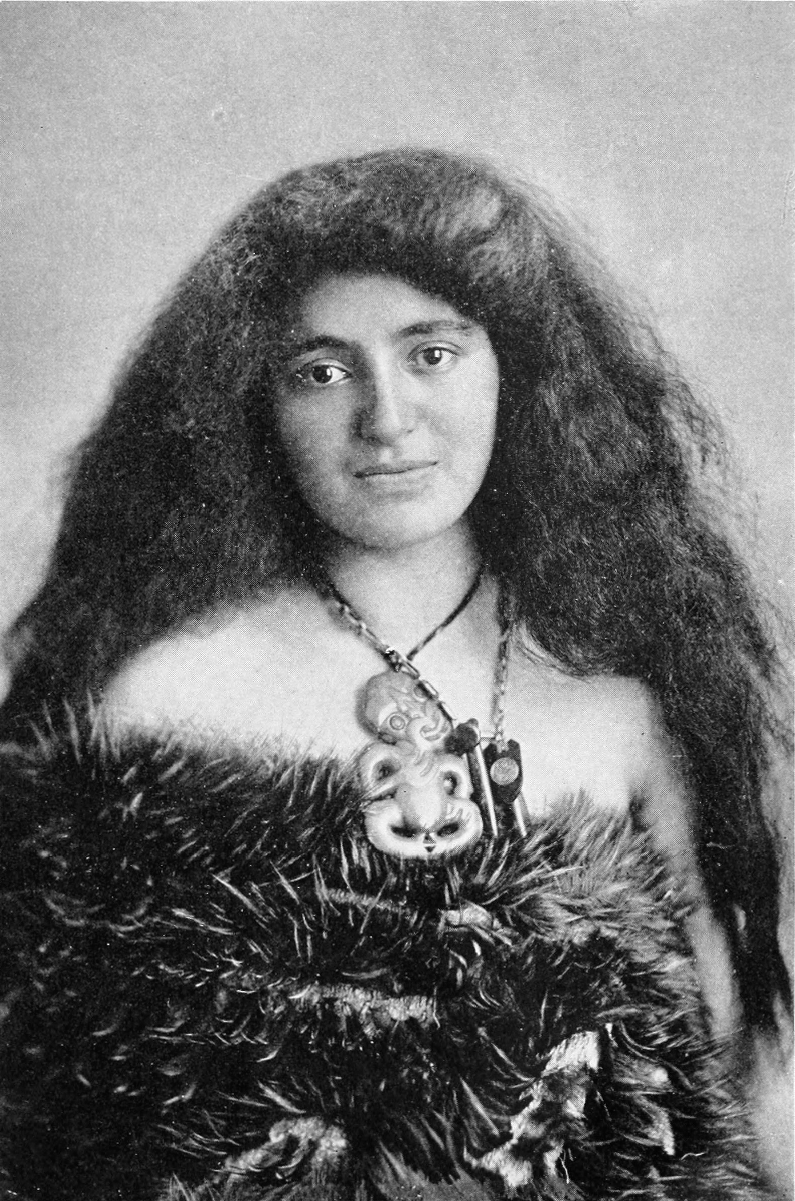 Frontispiece from Picturesque New Zealand, by David Paul Gooding. Original caption: Maori Wahine with Matt of Kiwi Feather and Pendent Heitiki.